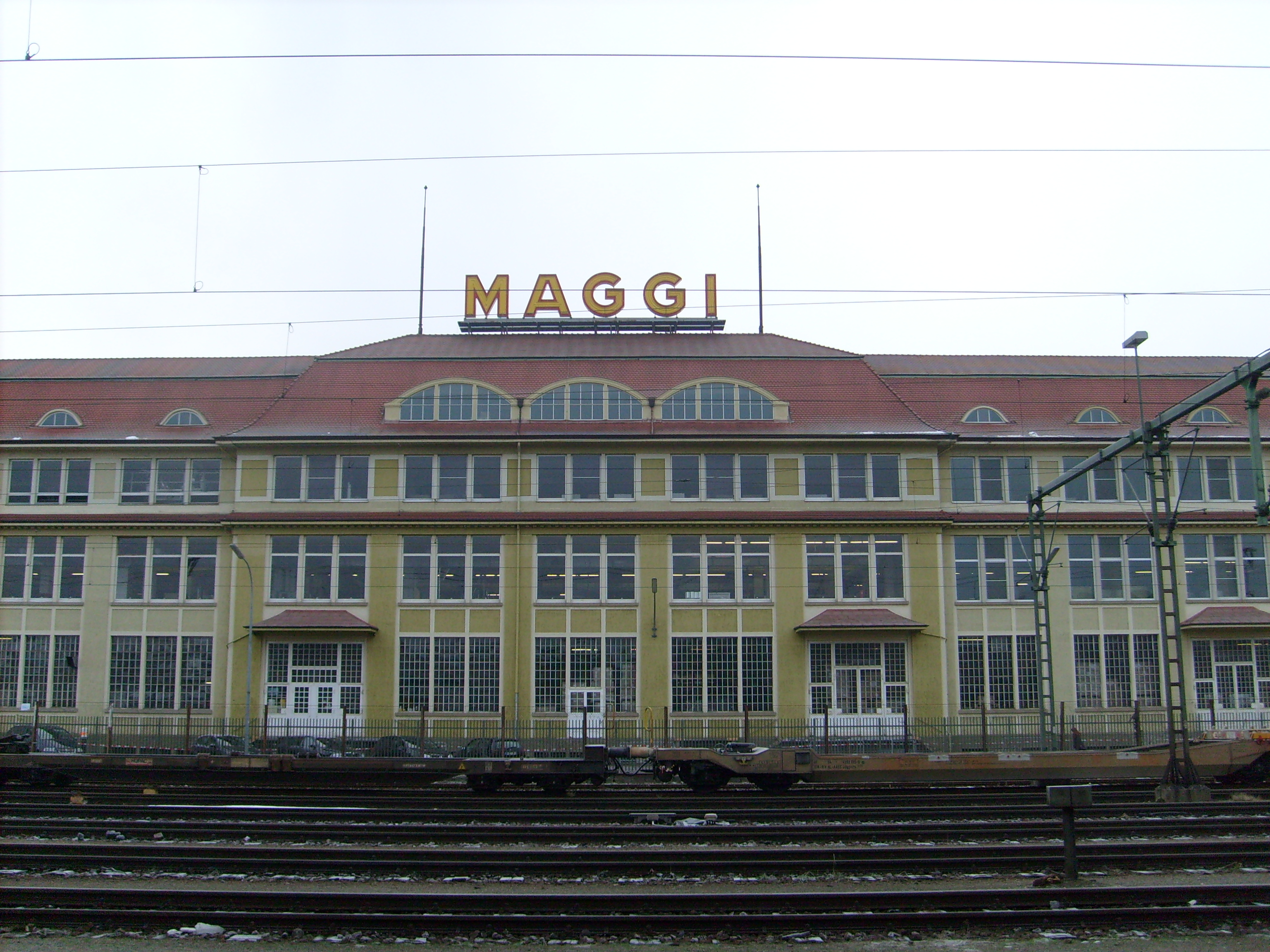 Production facility of the Maggi main plant in Singen, Baden-Württemberg, Germany